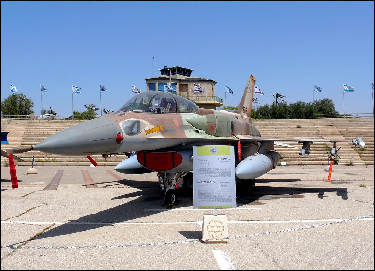 IAF F-16I Sufa (tail number 803)